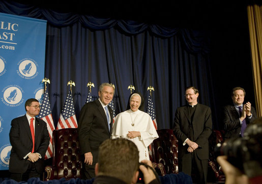 President George W. Bush talks with Mother Assumpta Long after addressing the National Catholic Prayer Breakfast, Friday, April 13, 2007, in Washington, D.C.